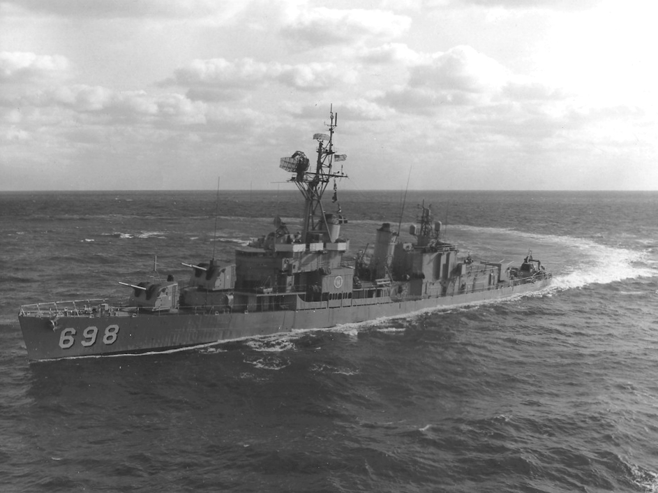 The U.S. Navy destroyer USS Ault (DD-698) underway in the Atlantic Ocean on 25 January 1967, just prior to her deployment to Vietnam.